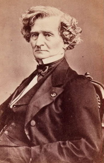 Photo of Hector Berlioz (1803 – 1869)